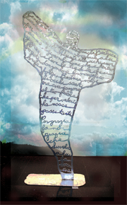 Angel made of the poetry of Dante's Divine Comedy